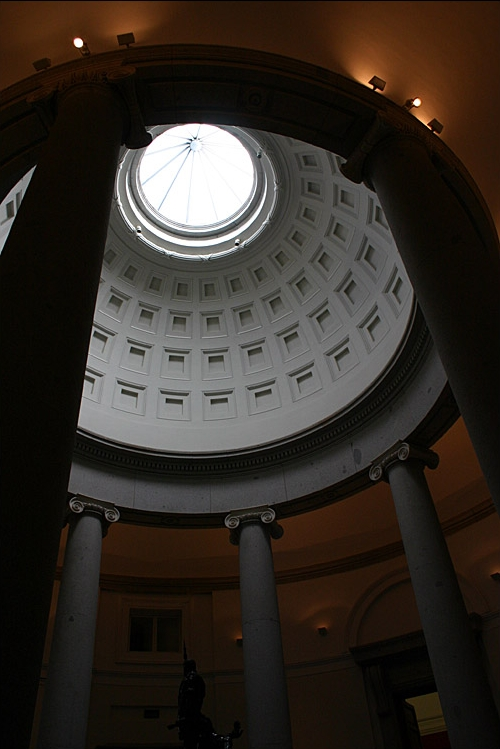 Interior of the Prado Museum in Madrid (Spain).